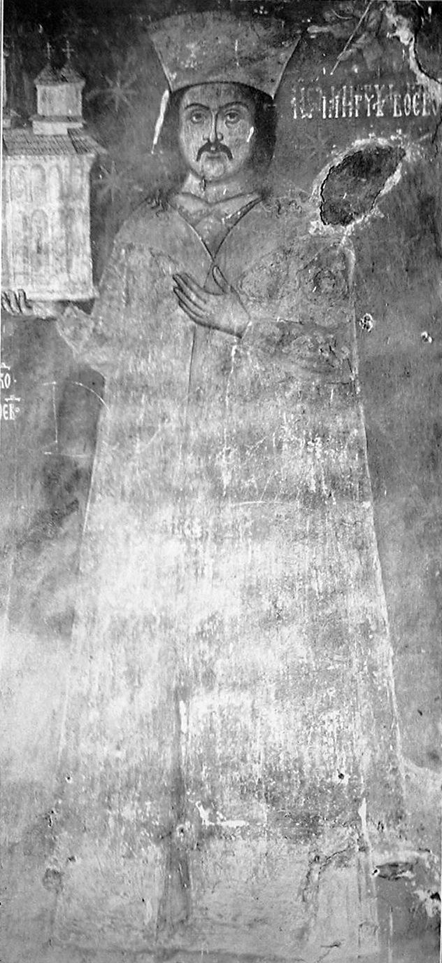 Mircea Ciobanul, fresco at Snagov monastery.